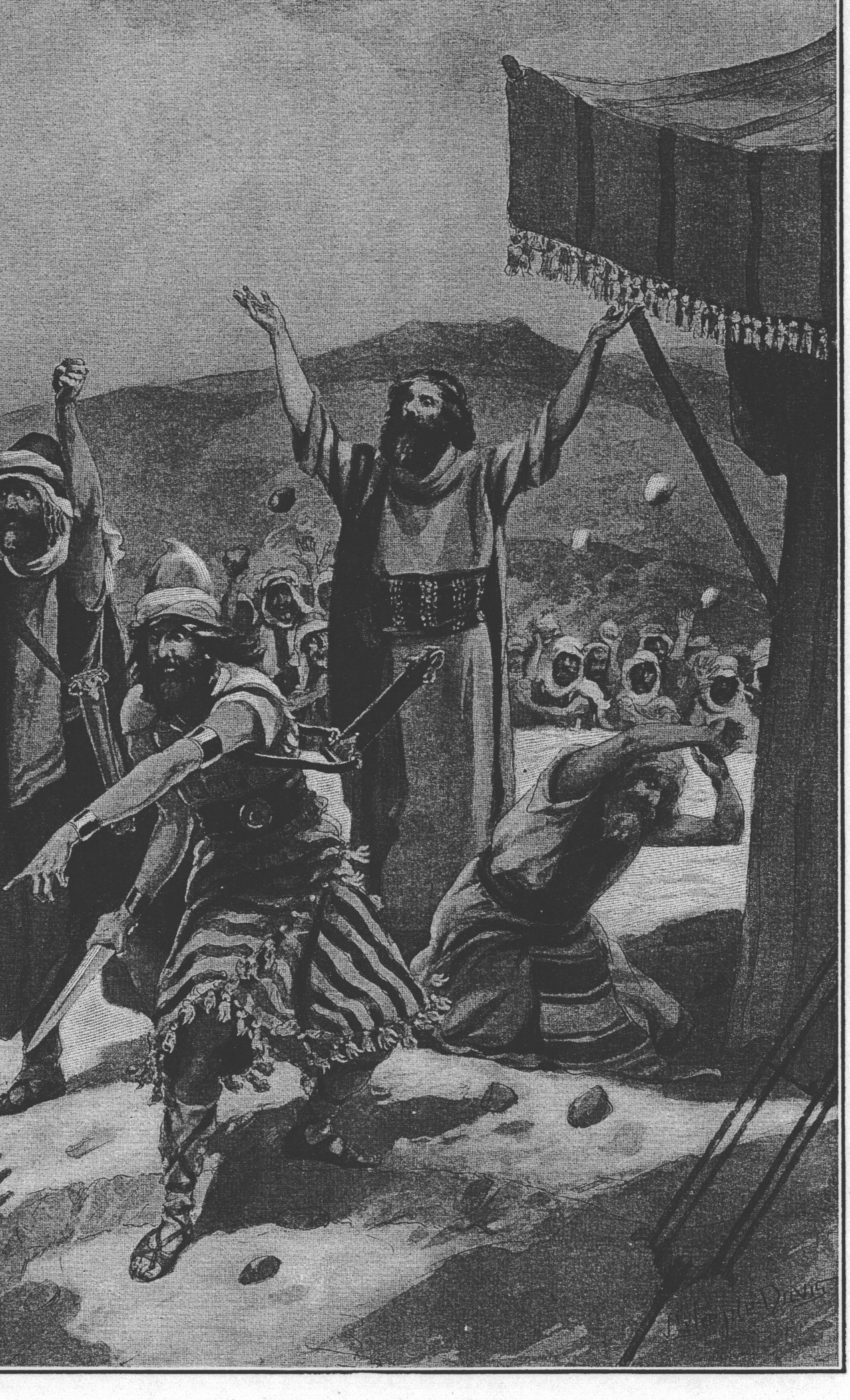 Joshua Saved, as in Numbers 14:10, by John Steeple Davis, from The Bible and Its Story Taught by One Thousand Picture Lessons. Edited by Charles F. Horne and Julius A. Bewer. 1908.